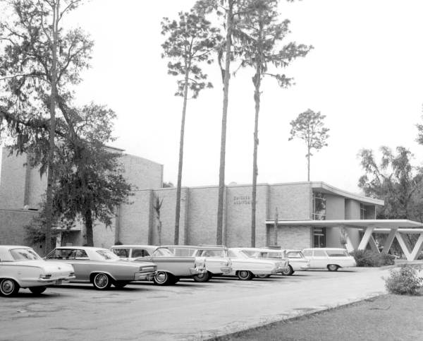 Cars parked near Swisher Auditorium, Jacksonville University - Jacksonville, Florida